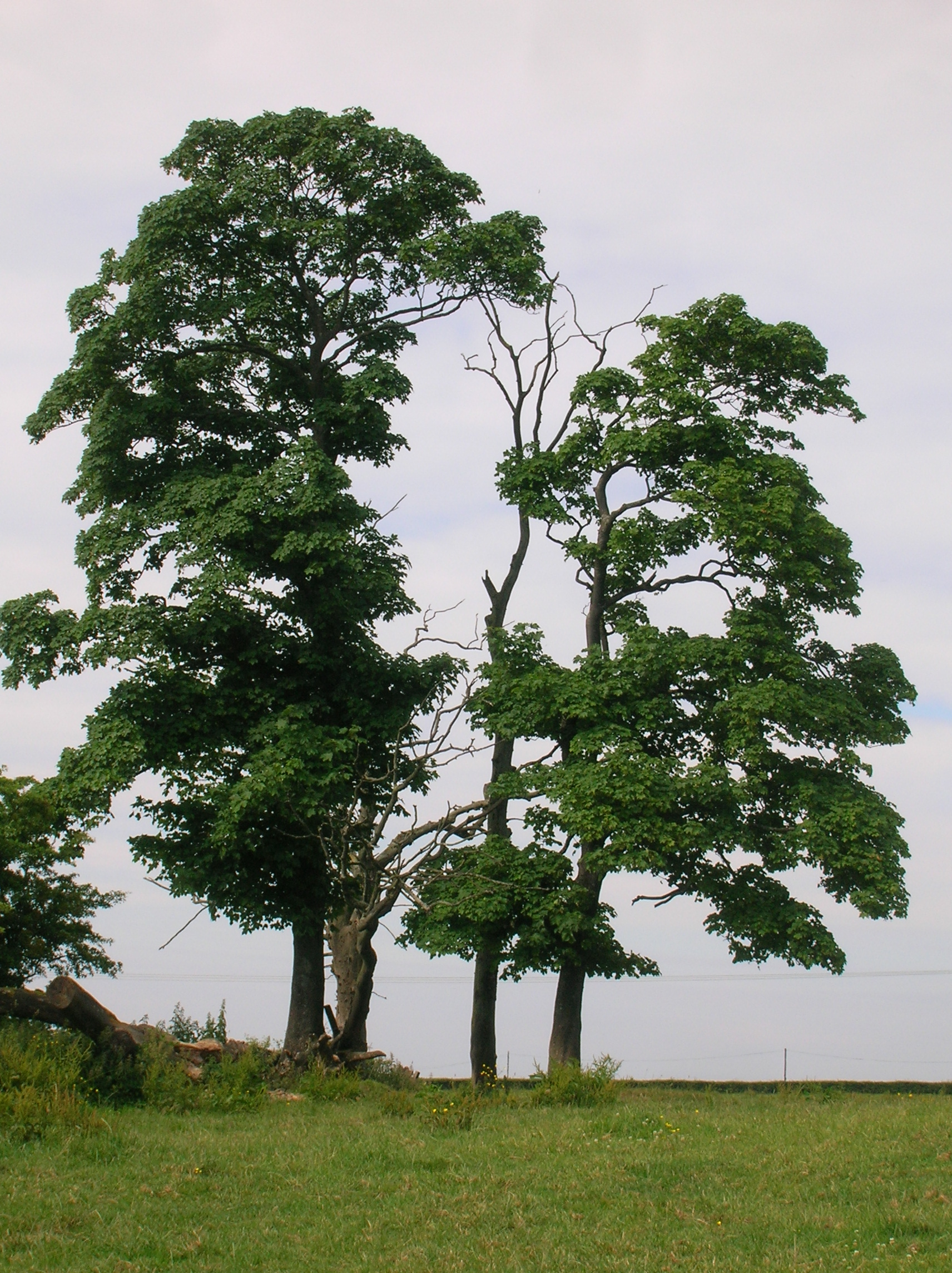 The copse at Barrmill, Ayrshire, that marks the spot of the old Cholera pit from the early 1800s.